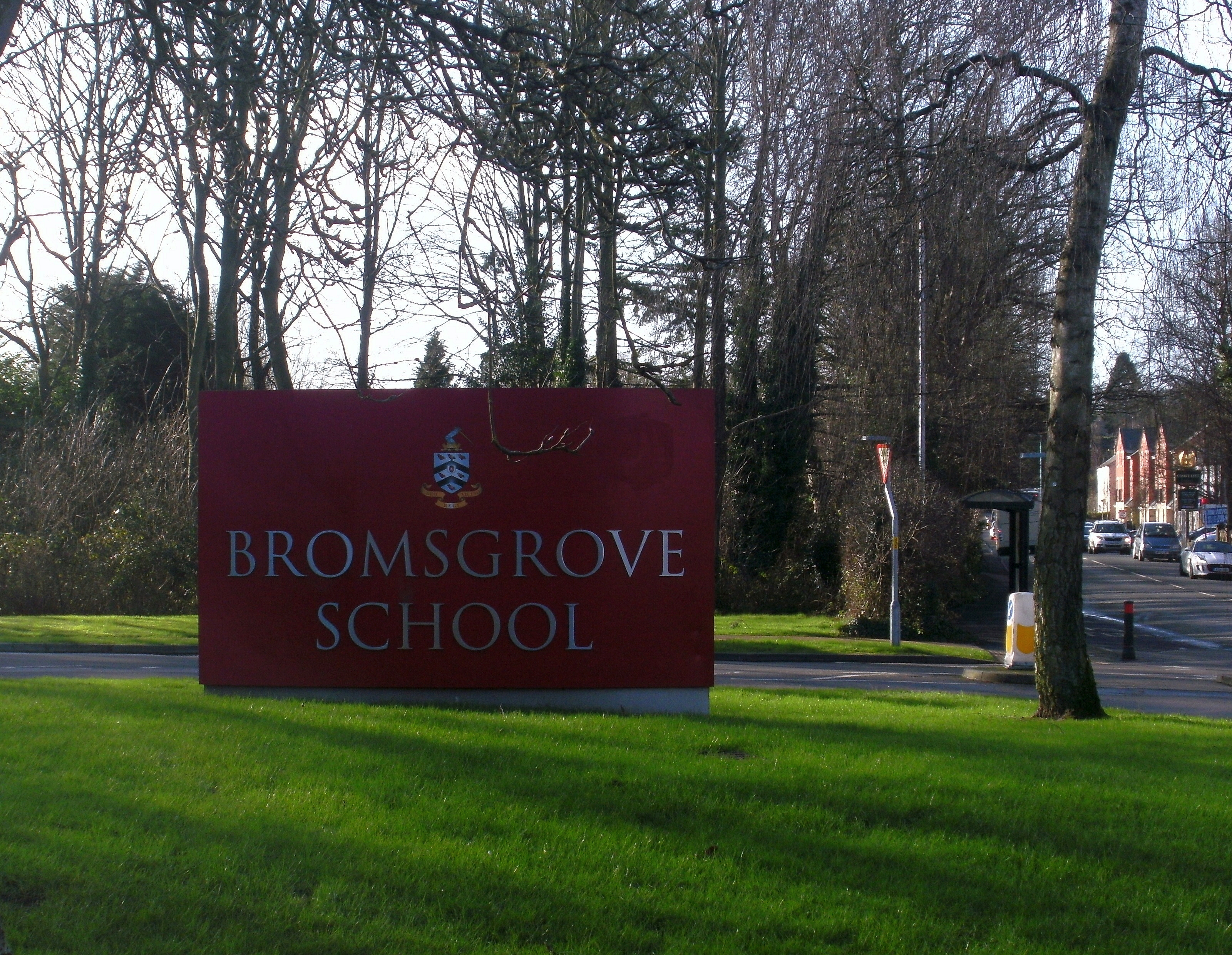 Bromsgrove School, sign at the main gate in Worcester Road